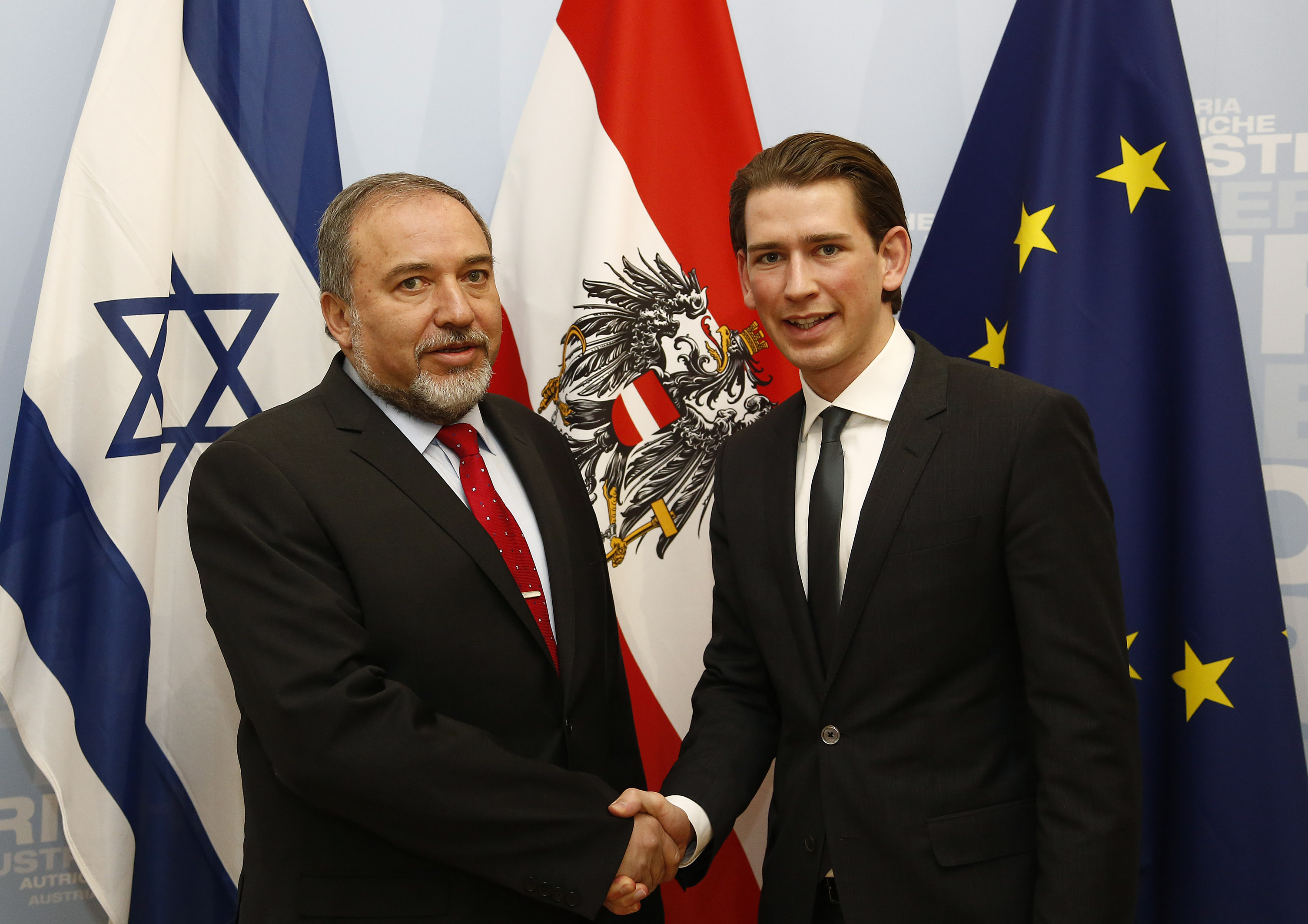 The Austrian foreign minister Sebastian Kurz and his counterpart from Israel, Avigdor Lieberman, at a meeting in Vienna in January 2014.